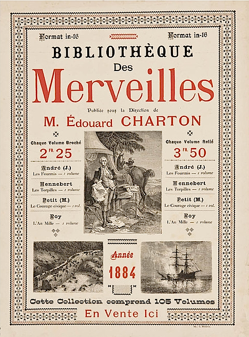 Poster for the Bibliothèque des merveilles, a collection of books published by Edouard Charton & Hachette (Paris).